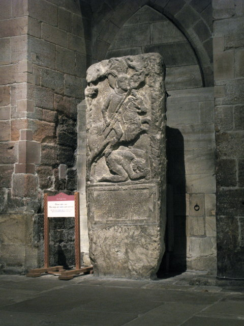 Tombstone of Flavinus, Roman Standard Bearer, Hexham Abbey 'Flavinus rides in triumph over his barbarian adversary on the tall sandstone slab that now stands in front of a blocked doorway at the foot of the Night Stair in Hexham Abbey. Flavinus died towards the end of the first century, aged 25, after seven years of military service. The slab probably once stood in the military cemetery near the fort of Coria (near Corbridge). It seems odd that so massive and decorative a monument should have been brought from over three miles away to serve simply as building stone: originally (in the 12th century) the slab was laid face upwards in the foundations of the east range of the cloister and was (re)discovered in 1881.' [Source: (adapted from) Hexham Abbey Leaflet No.4]